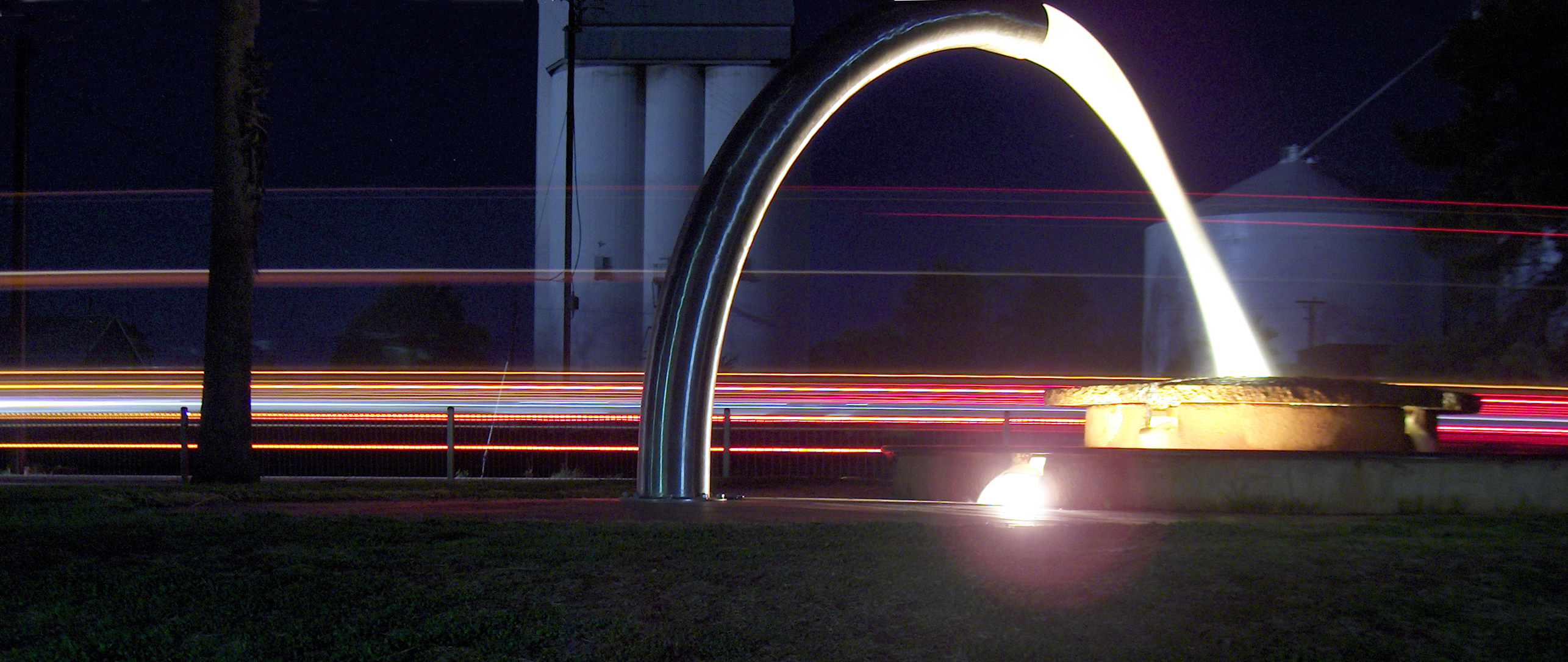 Water feature in Keith, SA alongside Dukes Highway.